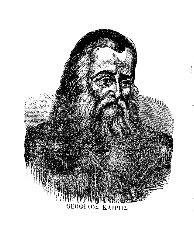 Portrait of Θεόφιλος Καΐρης / Theophilos Kairis